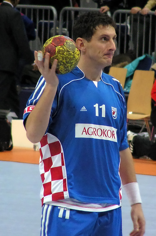 Mirza Džomba, on January 24th 2007 in Mannheim , SAP-Arena (Germany), during the break of the Handball World Championchip game Denmark - Croatia (26:28)